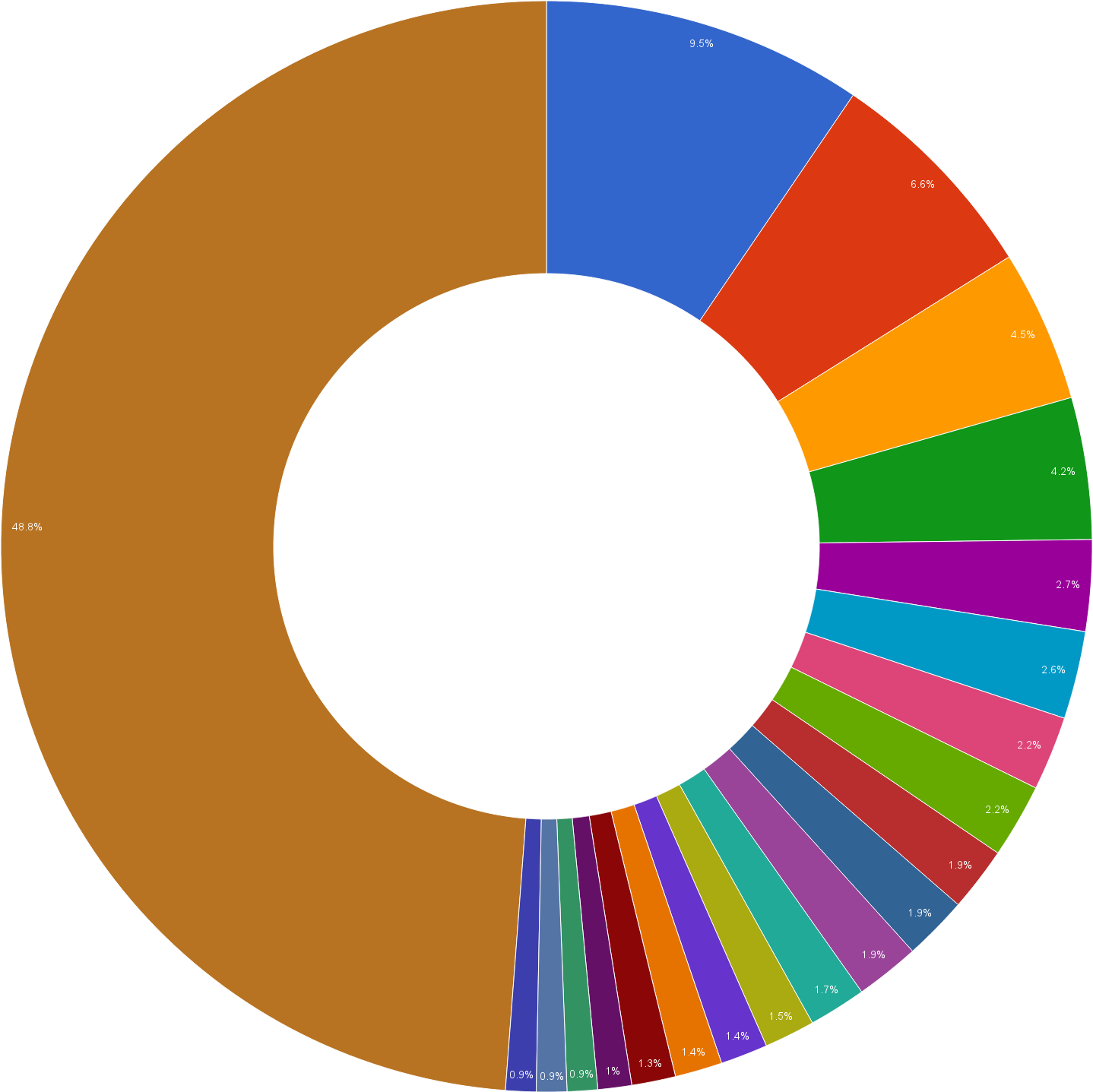 Tan Lim Lee Ng Ong Wong Goh Chua Chan Koh Teo Ang Yeo Tay Ho Low Toh Sim Chong Chia/Seah Other